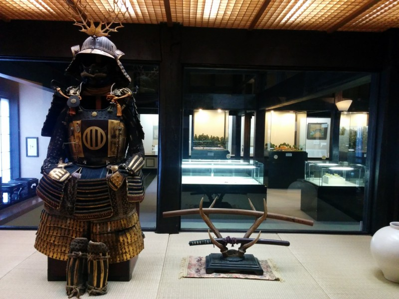 Museum area inside hotel